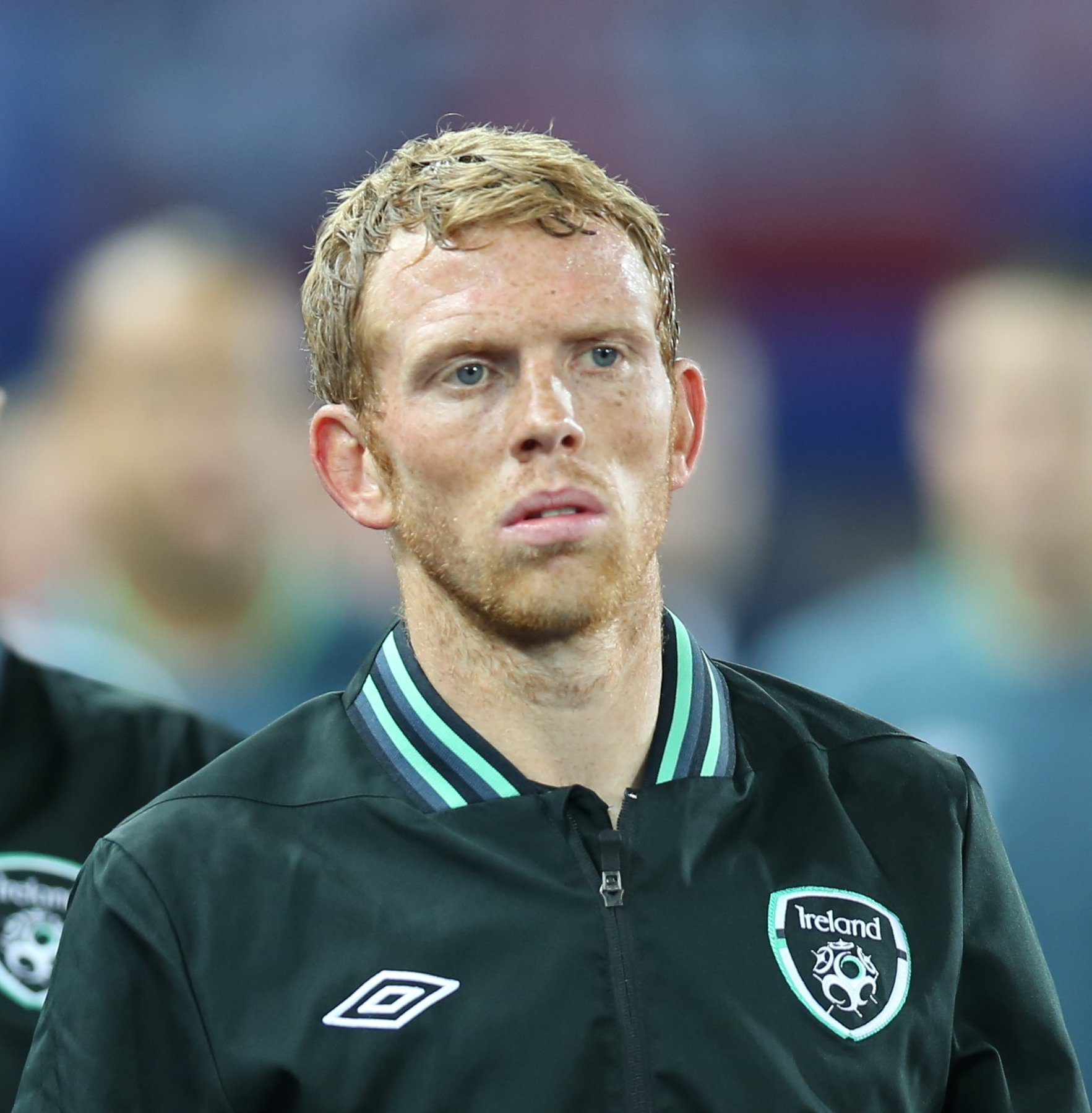 2014 FIFA World Cup qualification (UEFA), Group C: Republic of Ireland national football team at 10. September 2013 before the match against the Austria national football team (0:1) in the Ernst-Happel-Stadion in Vienna. Here:Paul Green, Irish midfielder. The making of this work was supported by Wikimedia Austria. For other files made with the support of Wikimedia Austria, please see the category Supported by Wikimedia Österreich.